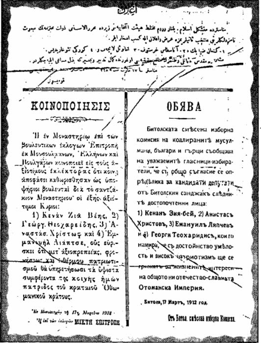 Rare Document from 1912 Young turks parlament with turkish, 2 bulgarian and greek represents in Macedonia